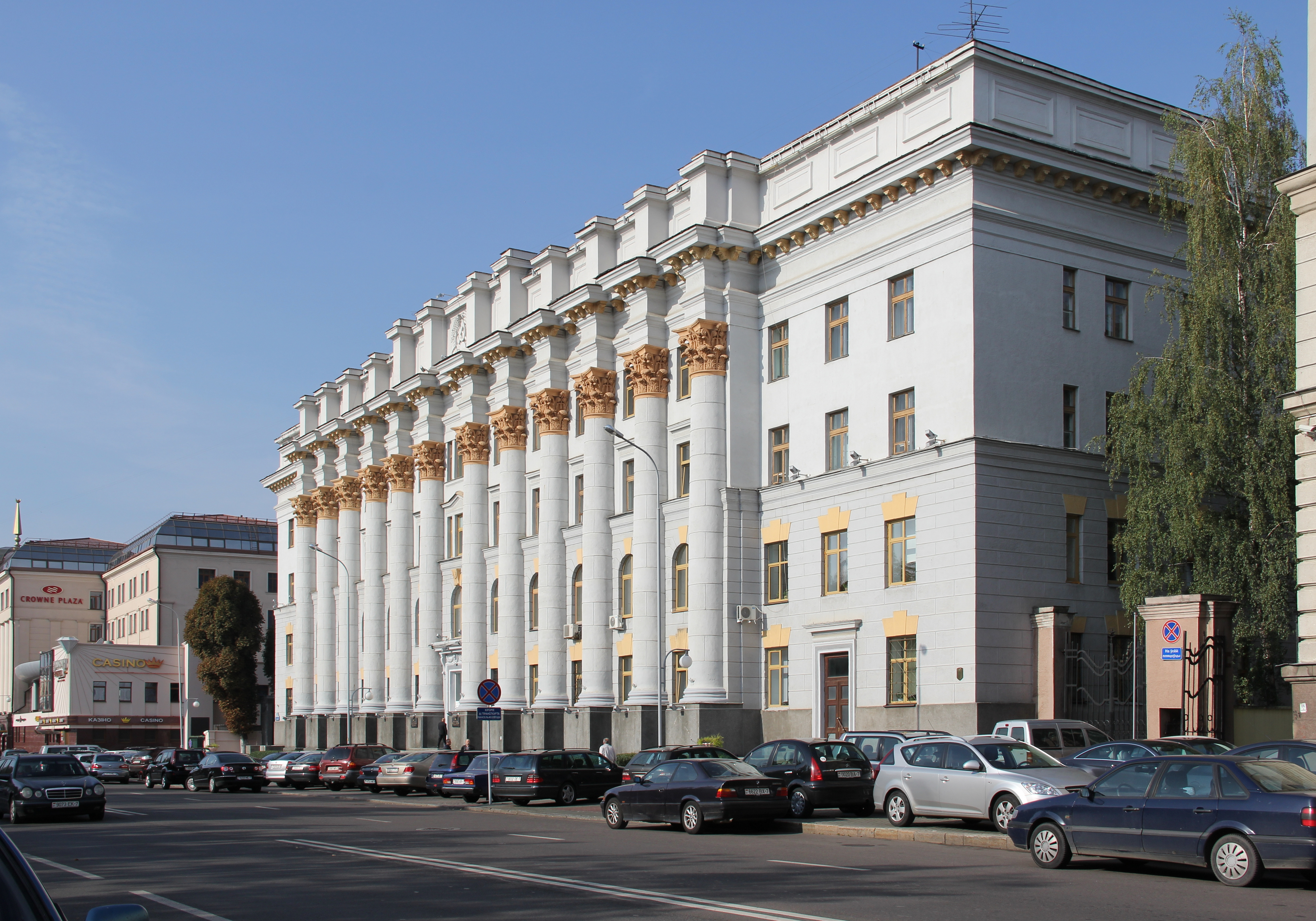 Беларуская (тарашкевіца): Будынак. г. Менск This is a photo of Belarusian heritage monument. Reference number: 713Г000072 ( WLM)